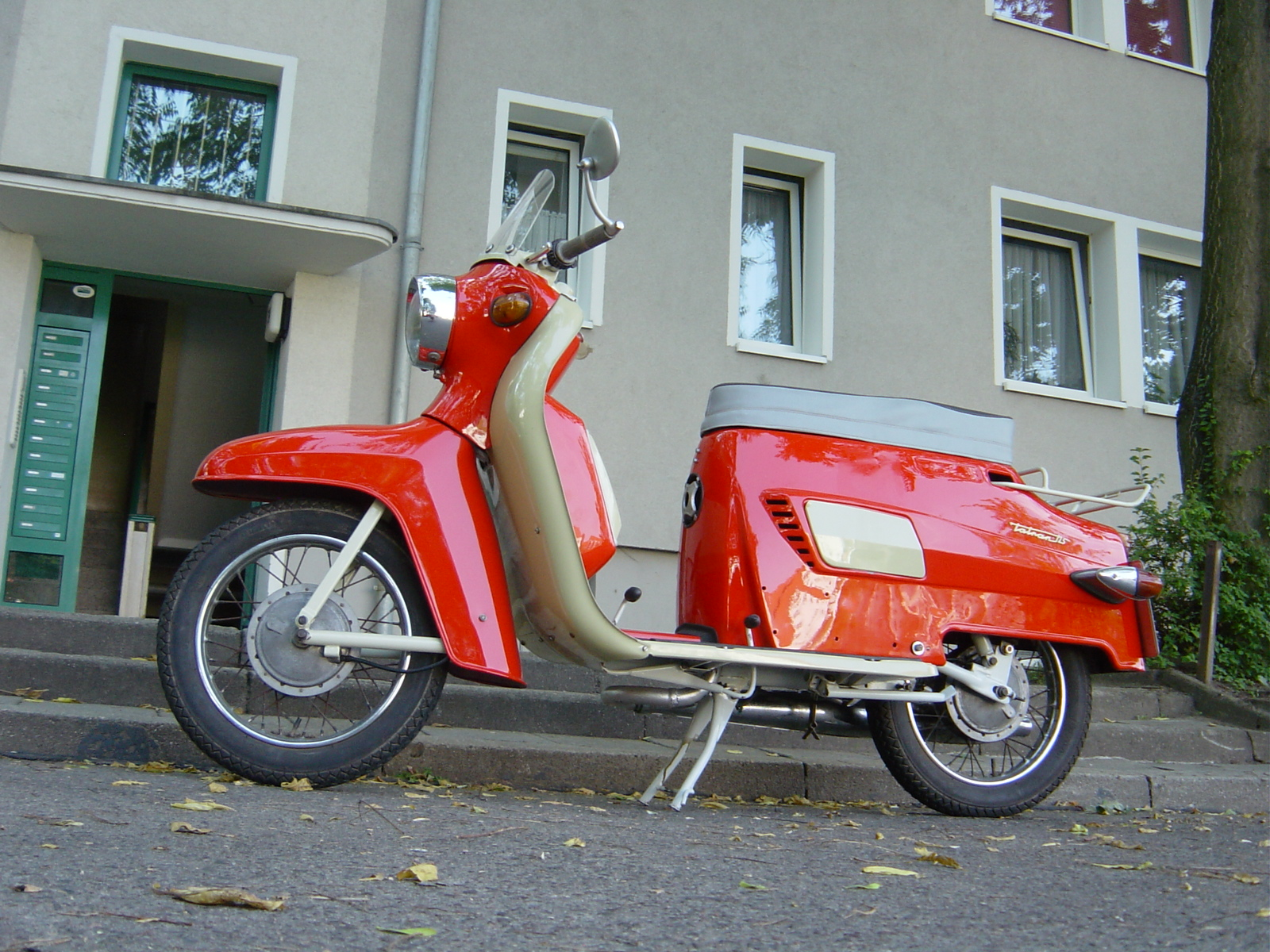 Tatran S125 from „Povazske Strojarne“ in Považská Bystrica (Slovakia).